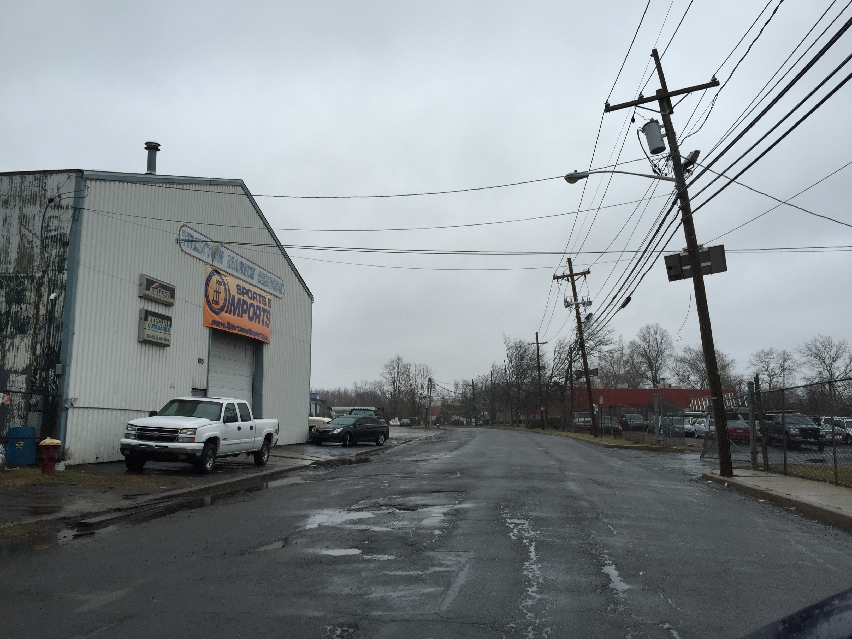 View south along Lamberton Road between New Jersey Route 29 and New Jersey Route 129 in the Duck Island section of Trenton, New Jersey